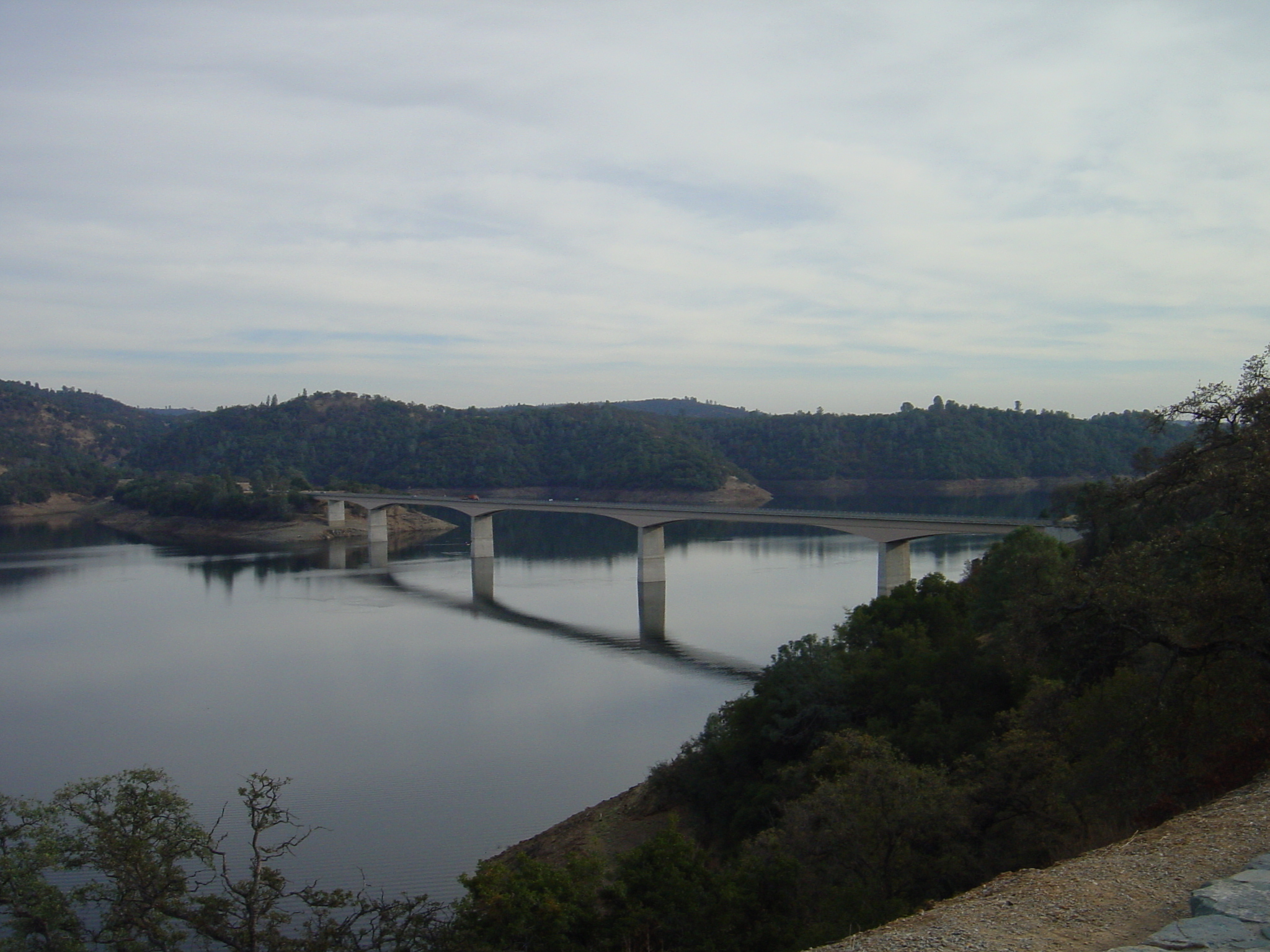 This bridge was built in 1976 to carry Highway 49 over the Stanislaus River at the point where it flows into the New Melones Lake.